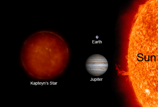 The image was created by Peter Binter on 19 03 2005 using a modified public domain image from NASA (US Government). It is not a photograph but an artistic representation of Kapteyn's Star. All proportions are approximations. Source: Kapteyns-stern.jpg